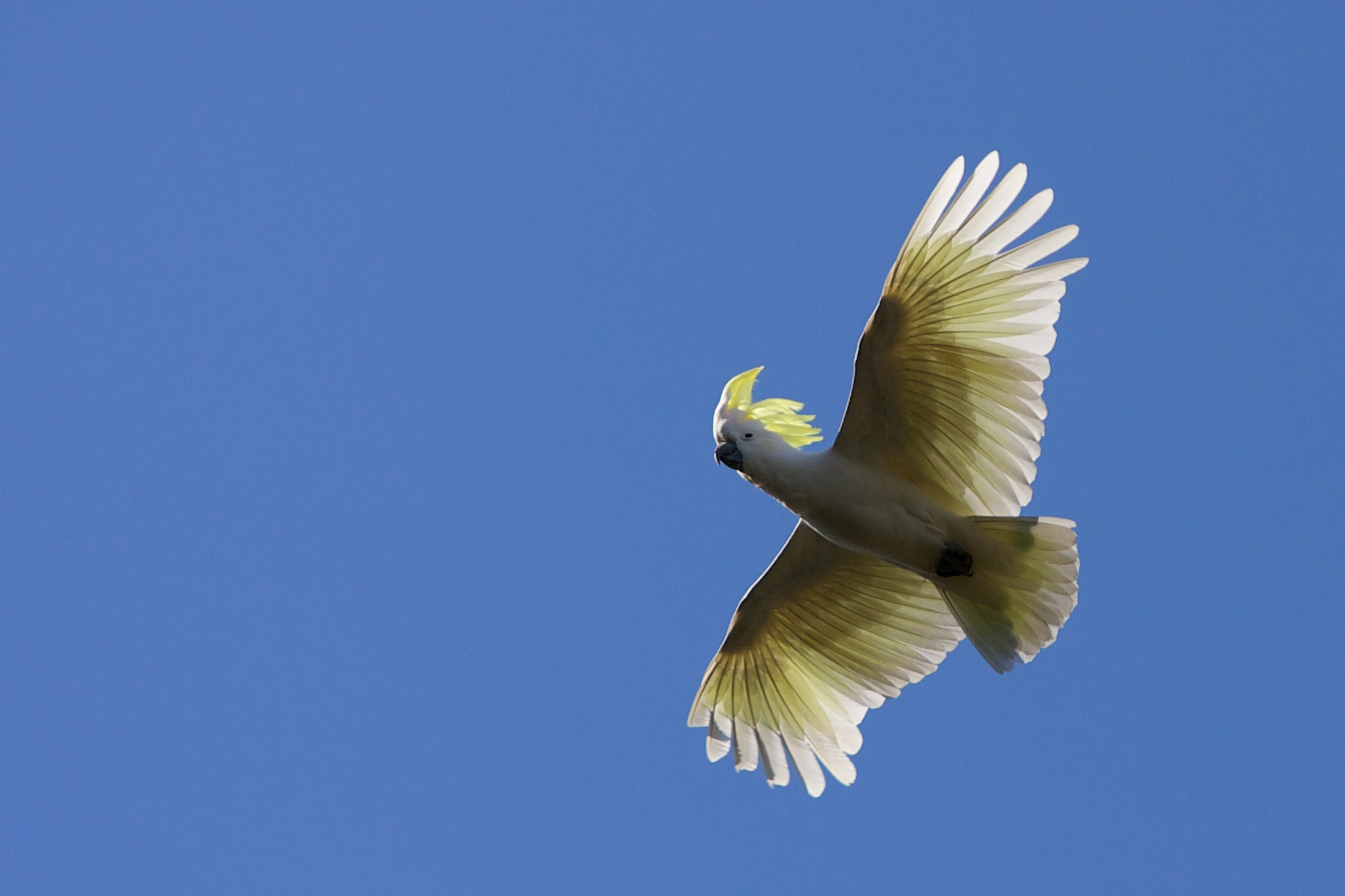 A Sulphur-crested Cockatoo flying near Hanging Rock, Victoria, Australia.